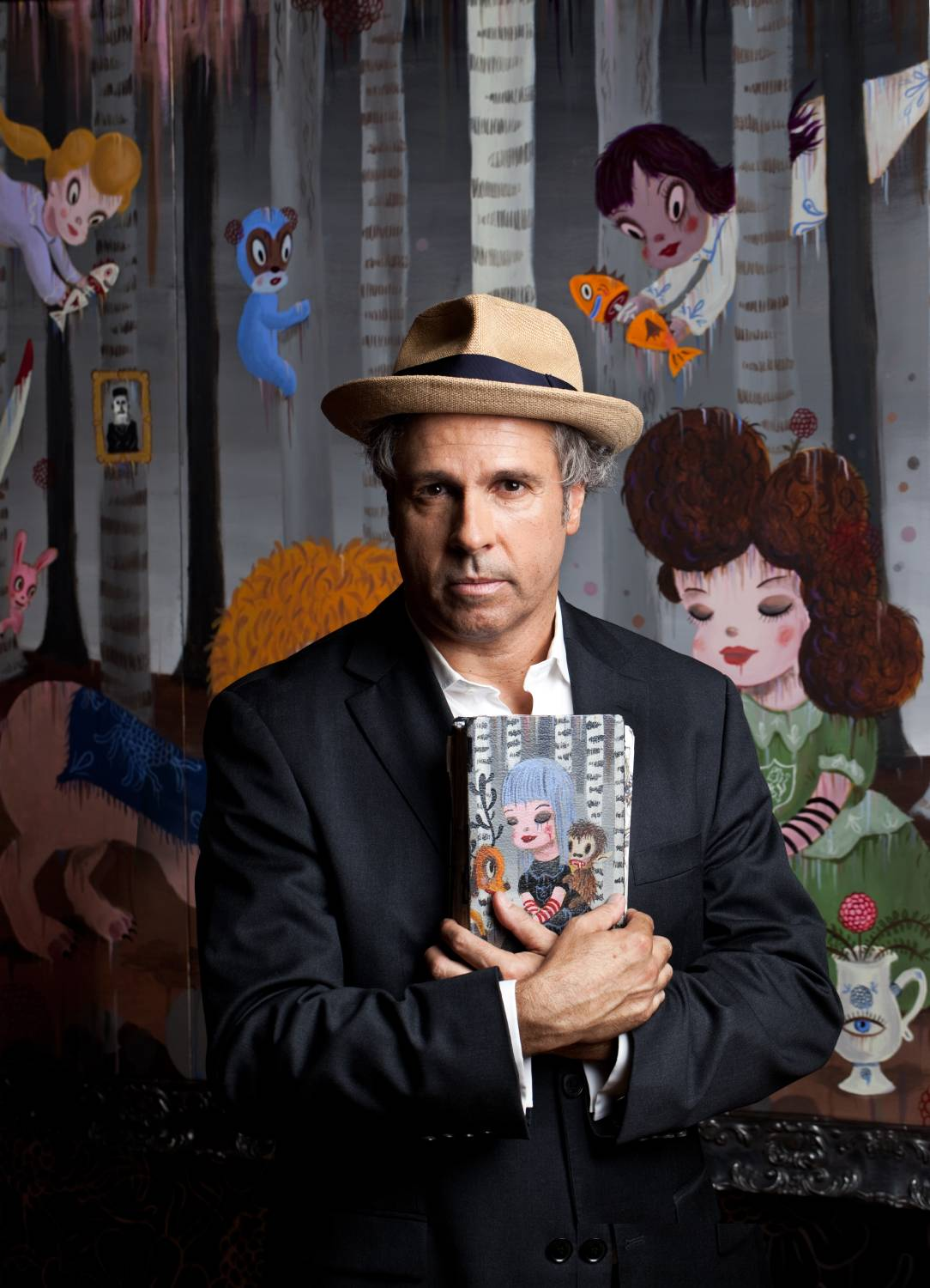 Portrait of artist Gary Baseman taken by Mark Hanauer